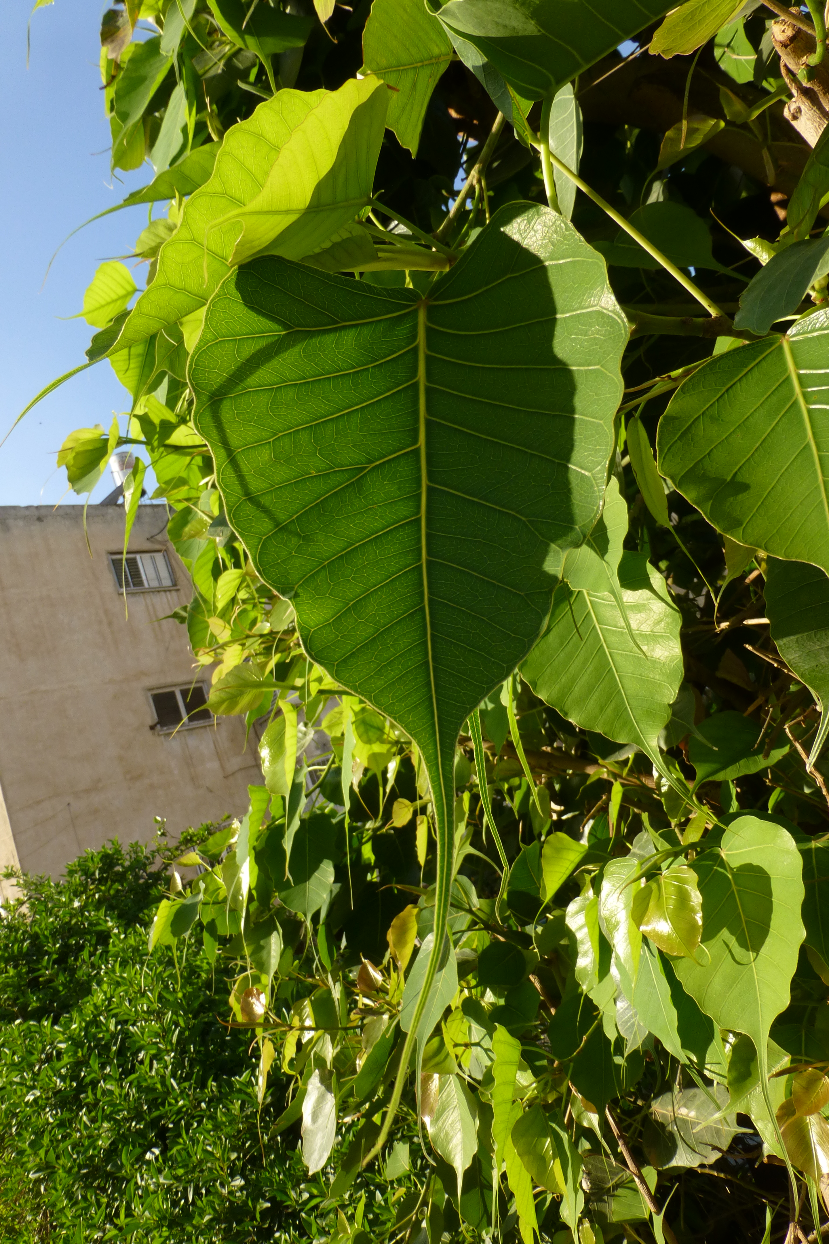 Ramat Gan Leaves